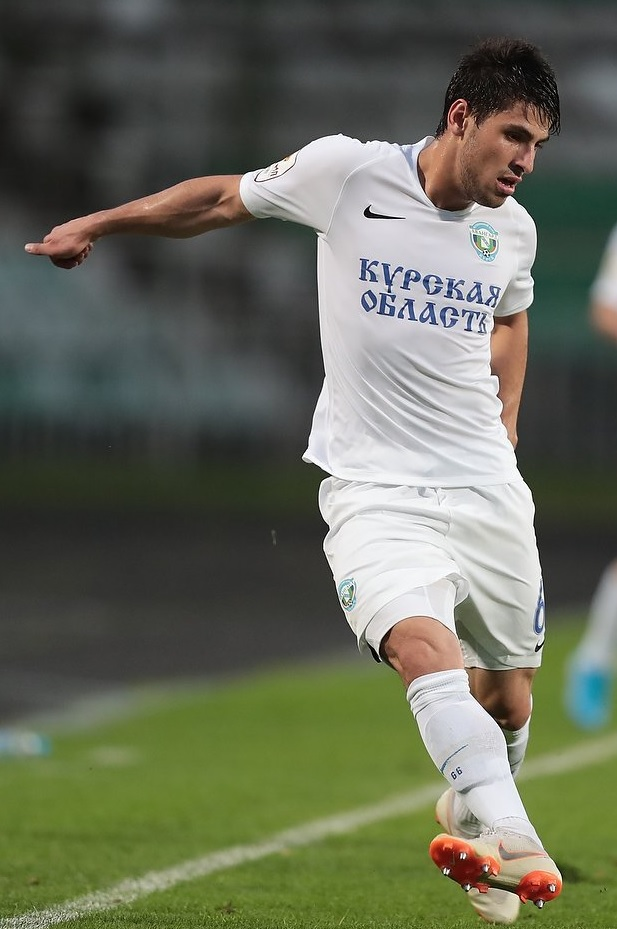 Alan Lelyukayev with FC Avangard Kursk in a game against FC Torpedo Moscow.